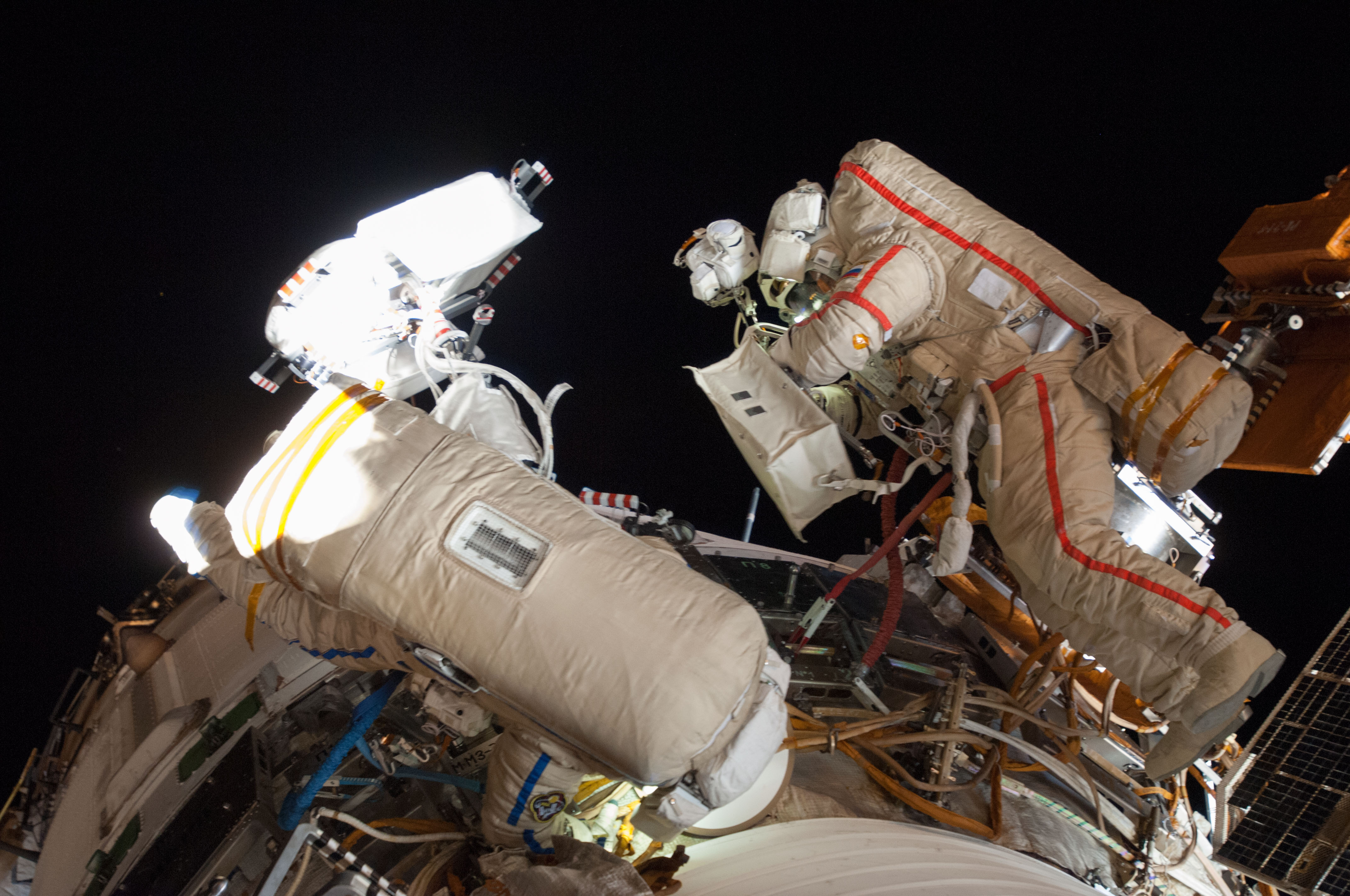 Russian cosmonauts Alexander Skvortsov (right) and Oleg Artemyev, both Expedition 40 flight engineers, participate in a session of extravehicular activity (EVA) as work continues on the International Space Station. During the seven-hour, 23-minute spacewalk Skvortsov and Artemyev completed installation and experiment tasks outside the station's Russian segment.